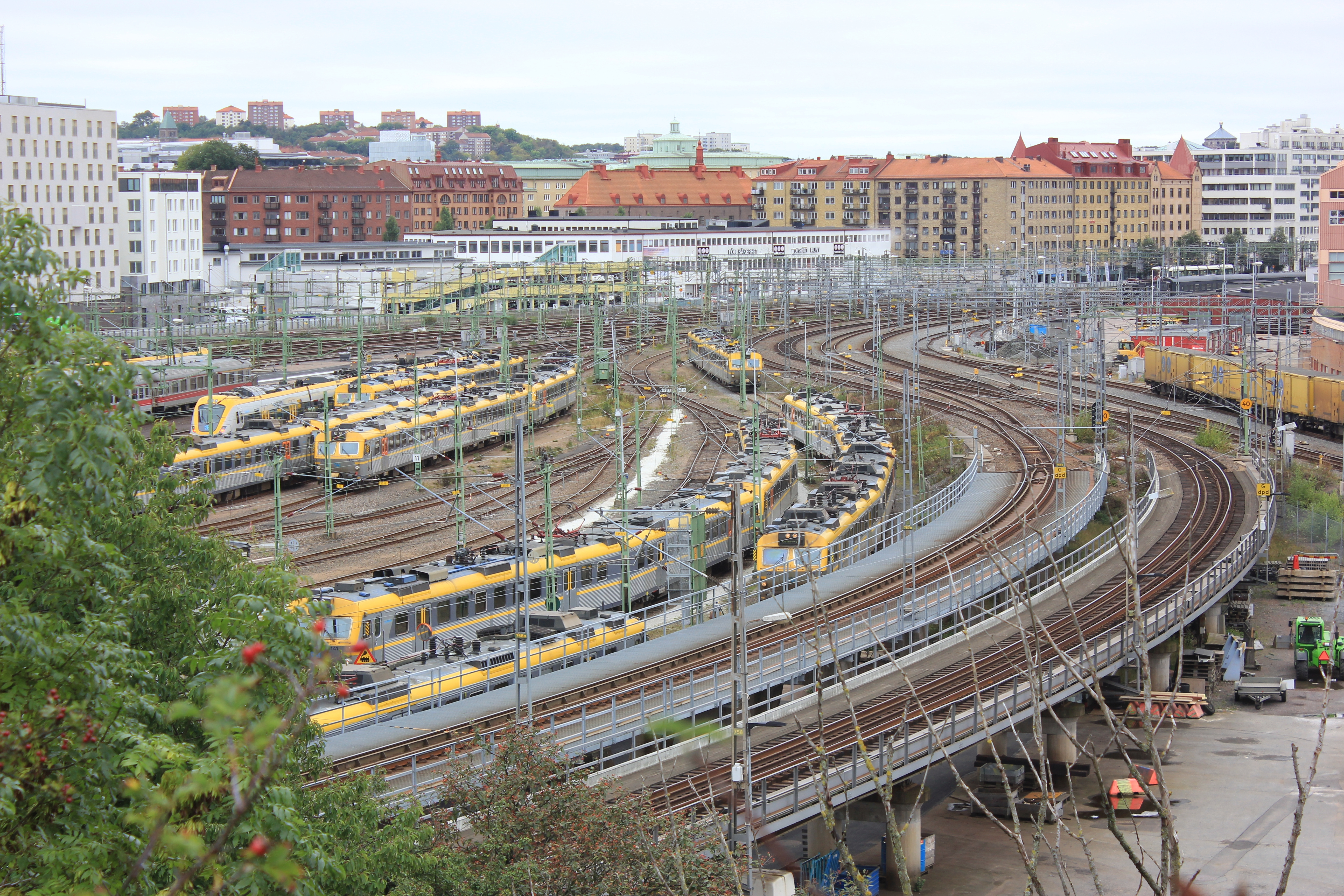 Gothenburg - railway tracks